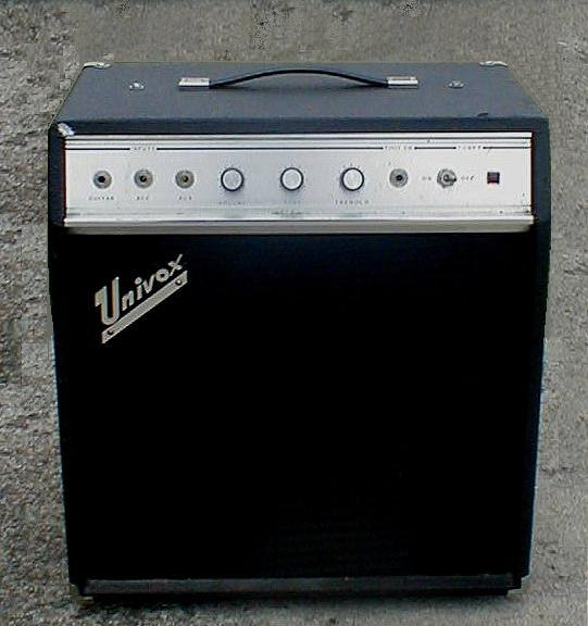 UNIVOX U45-B tube combo amplifier (mid 1960's)